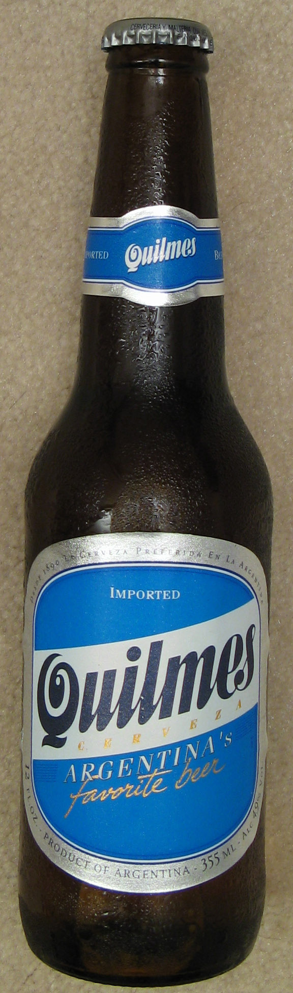 A bottle of 355 ml Cerveza Quilmes, the brand has 75% of the beer market share in Argentina.